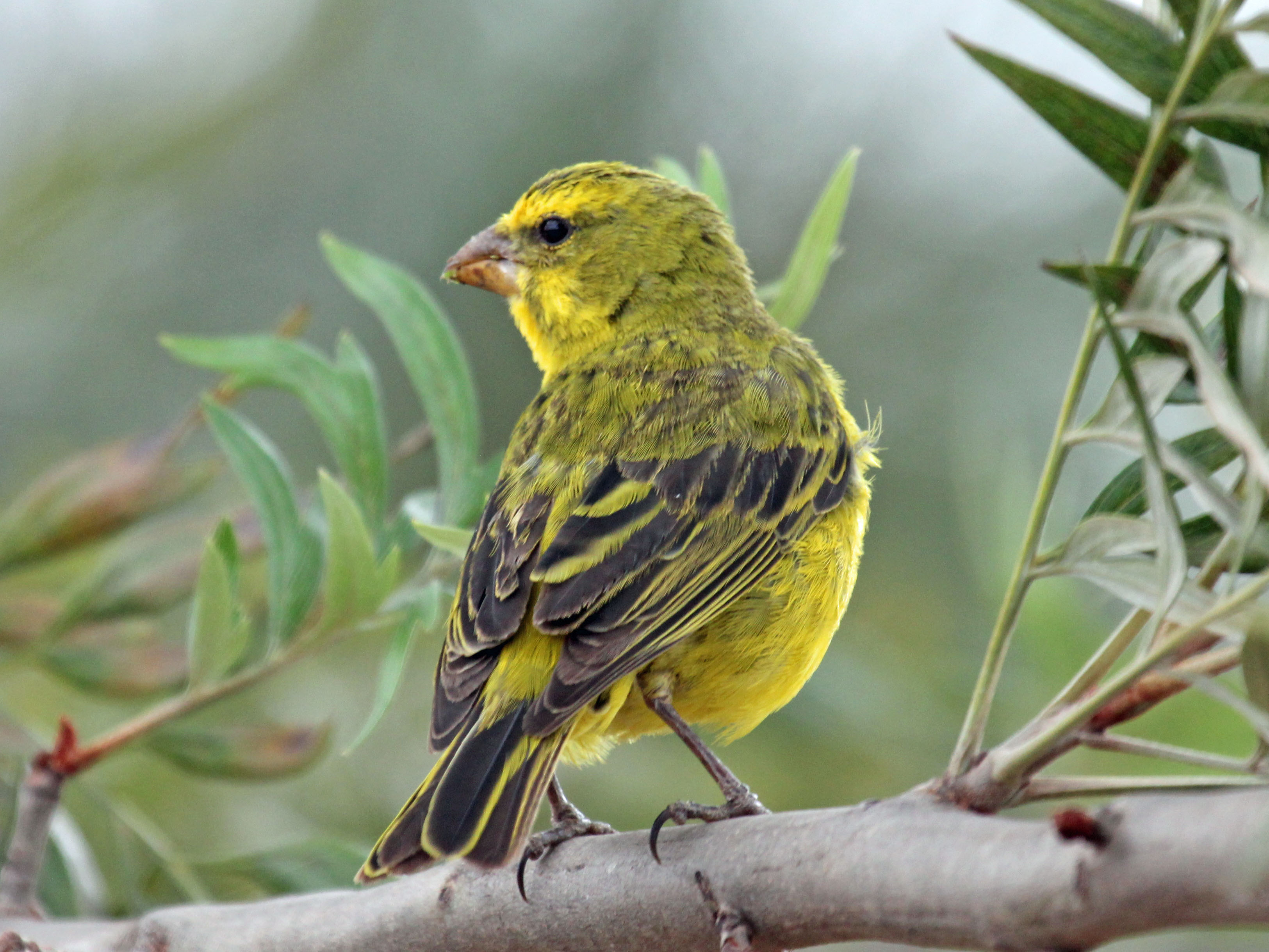 Brimstone Canary (Serinus sulphuratus sharpi) - slightly north of Masai Mara in Kenya.